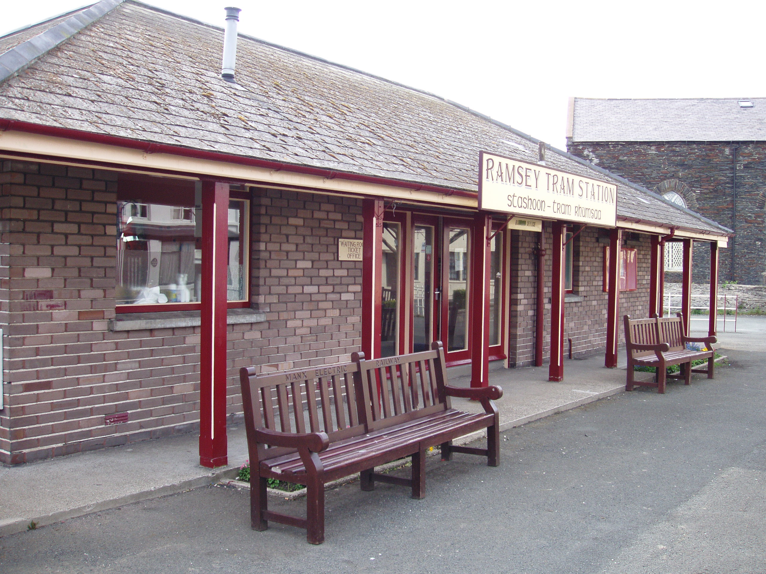 Street side entry to the Ramsey Tram Station. This is the north terminus of the Manx Electric Railway.